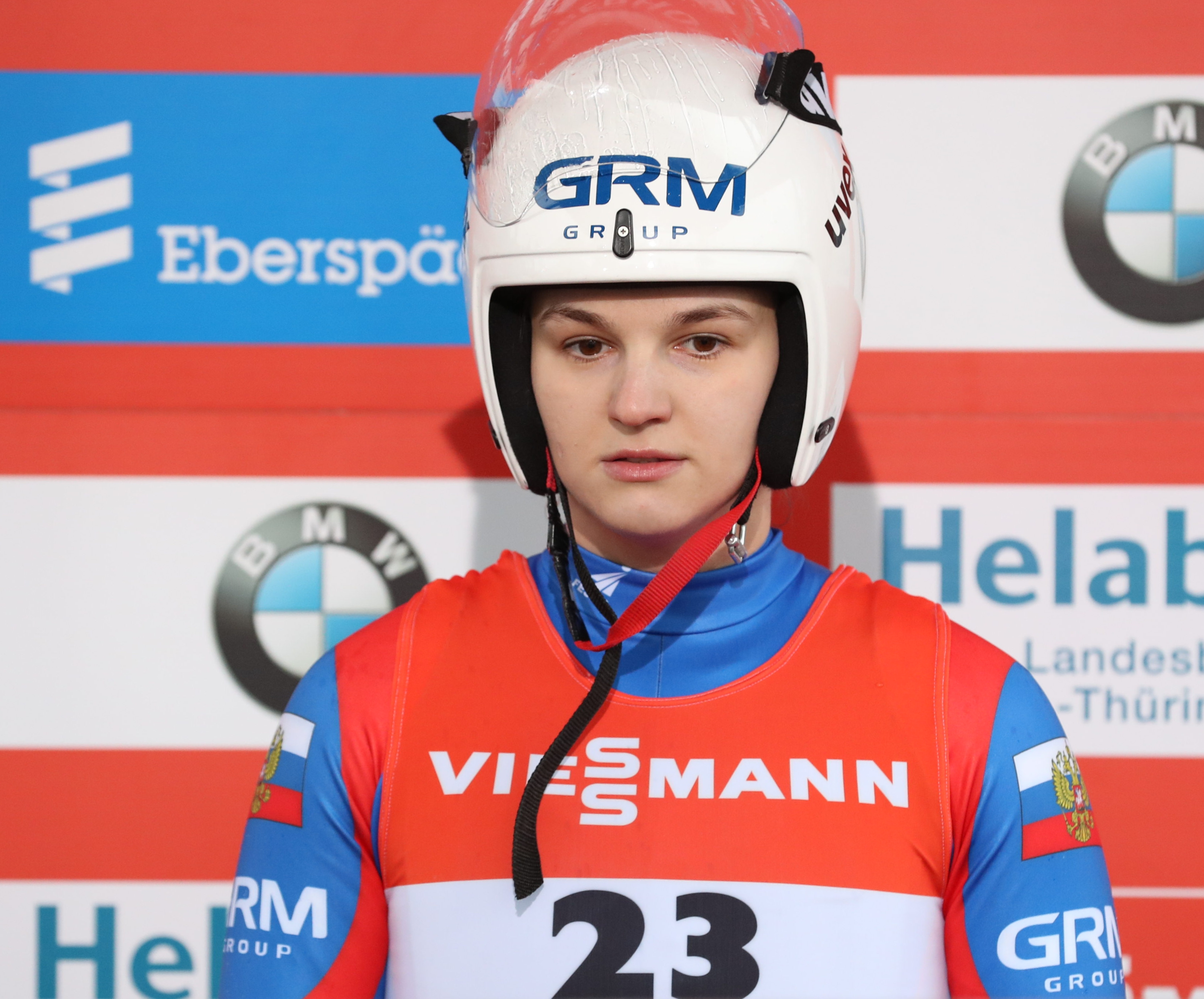 Women's World Cup at the 2019/20 Oberhof Luge World Cup